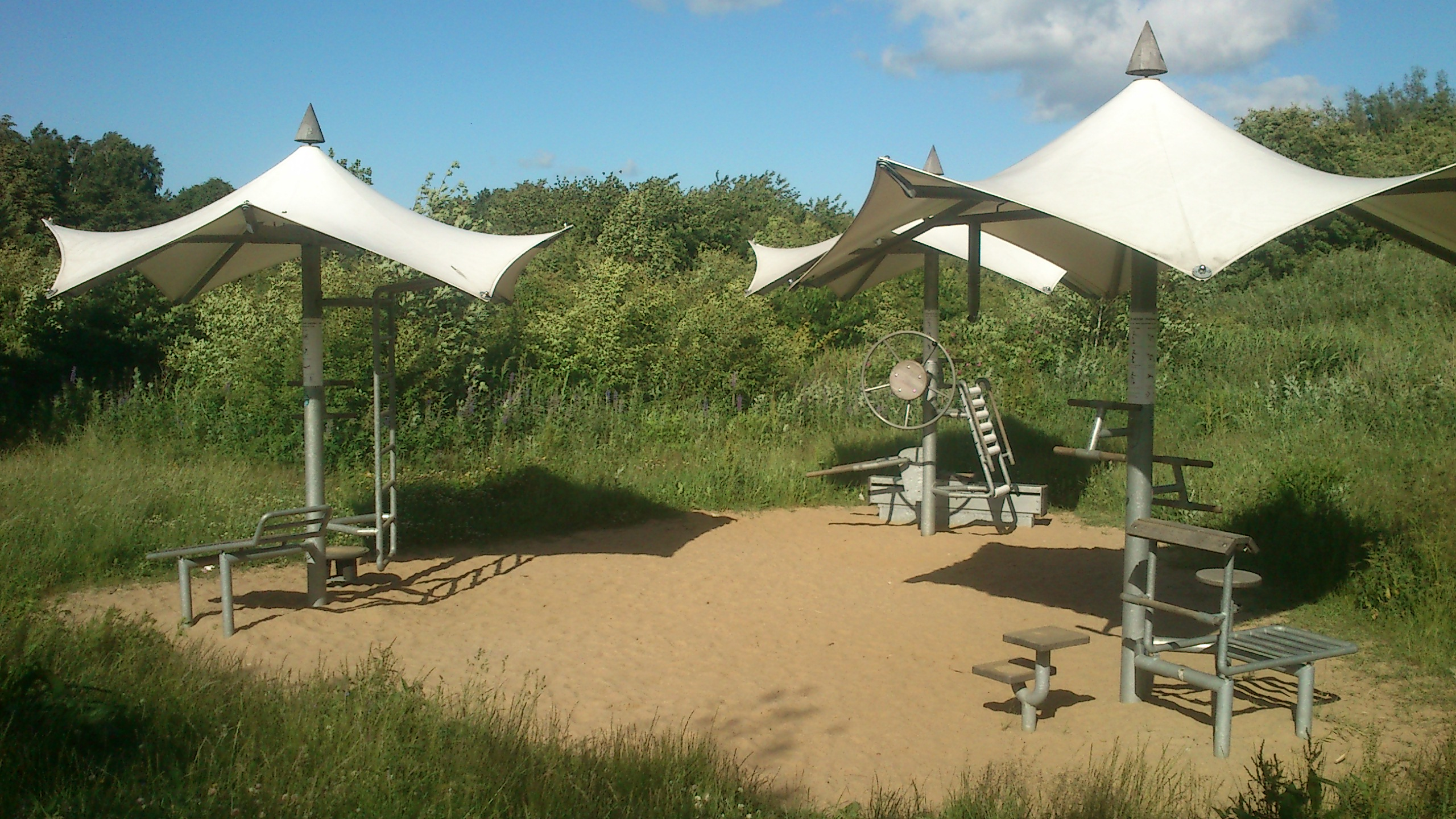 Example of freestanding exercise apparatus in Skjoldhøjkilen (Denmark)